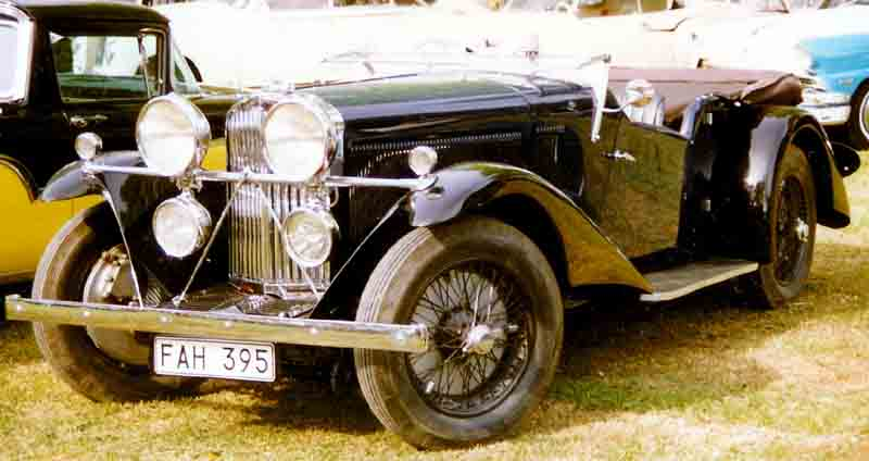 Talbot 105 Tourer 1933